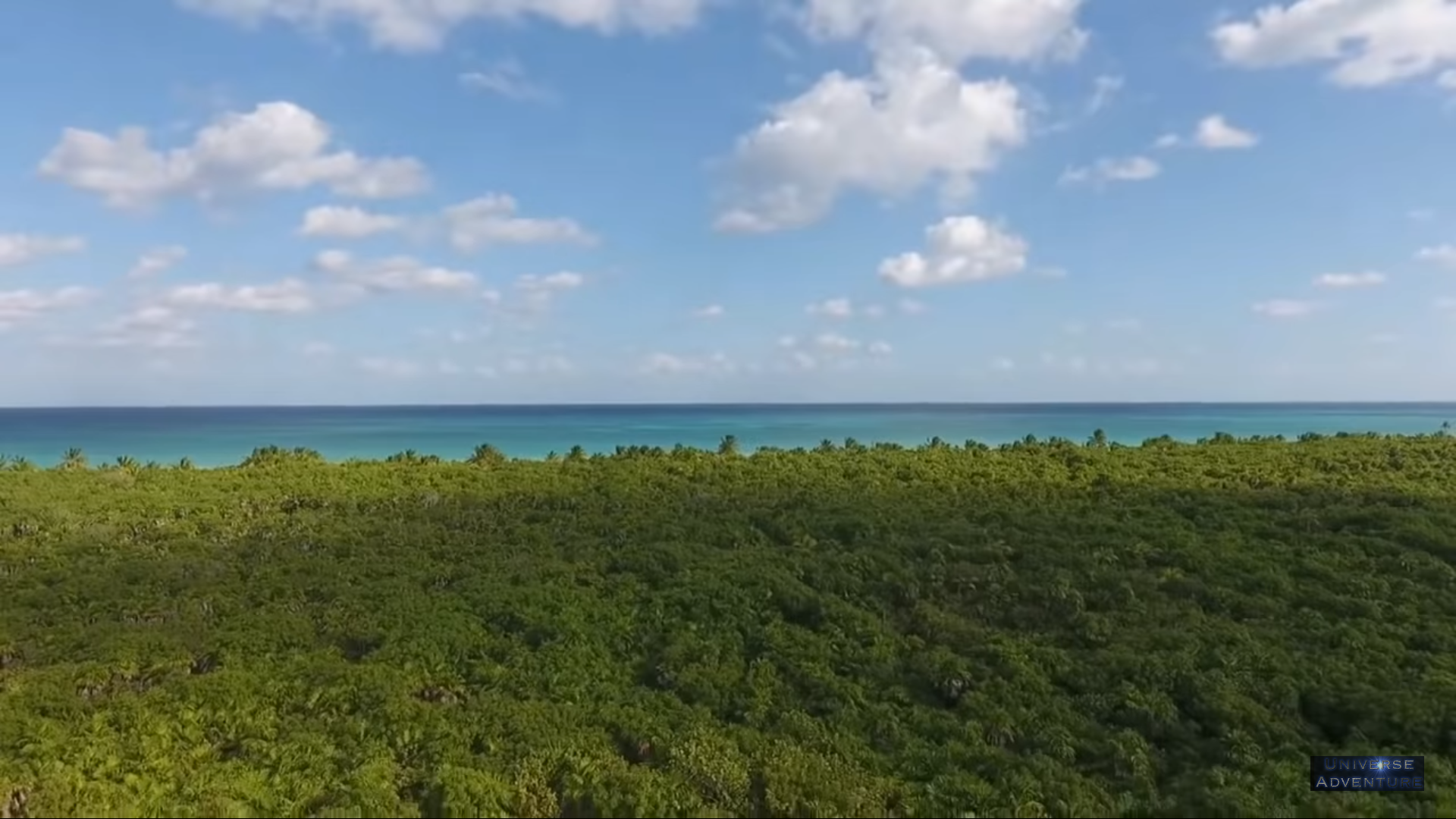 forest in maharashtra in india